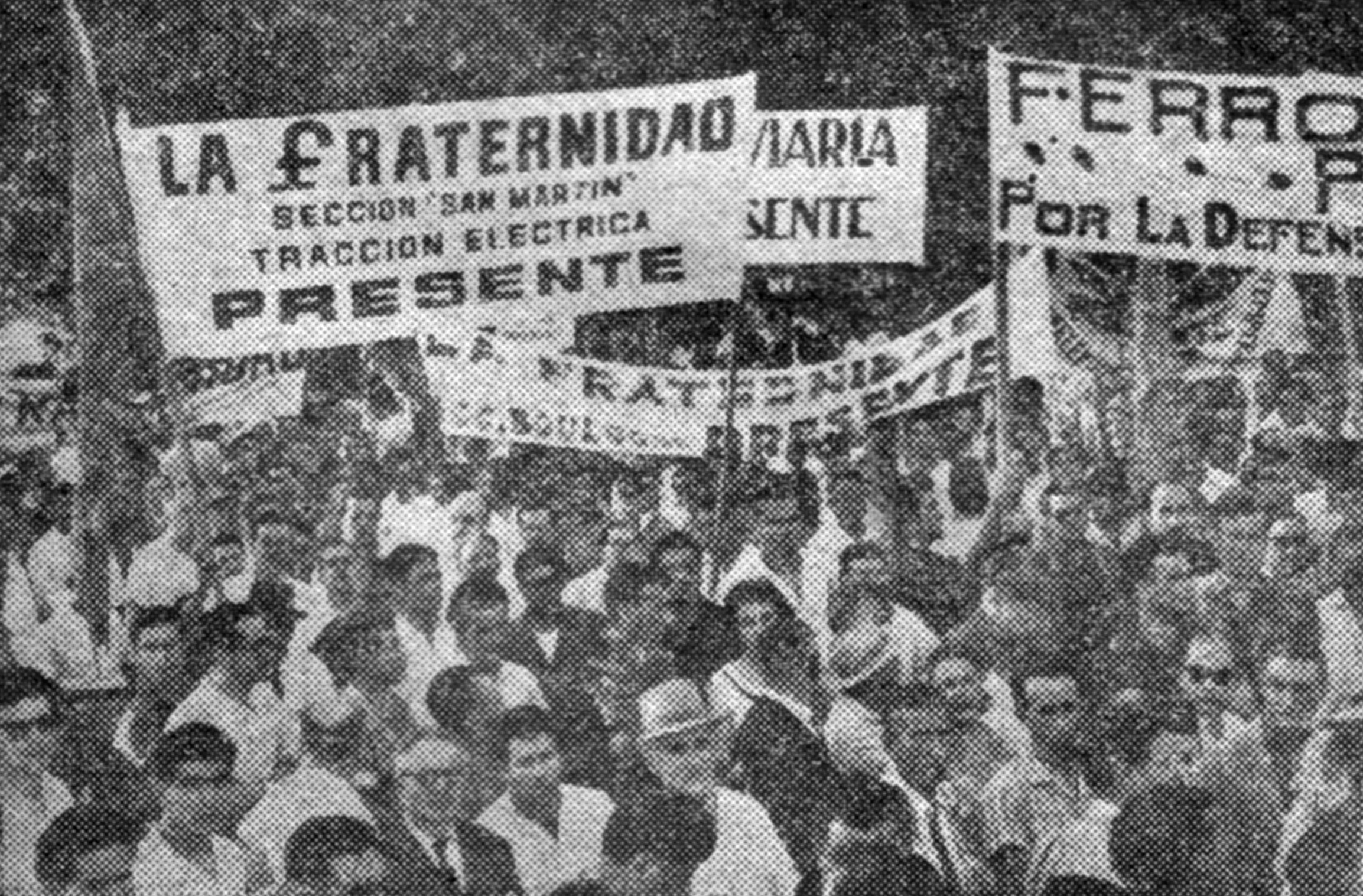 Railway union strike "La Fraternidad" against 'Plan Larkin' in 1961.